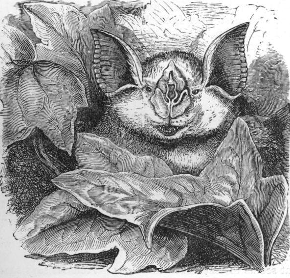 Bat face, Rhinolophus ferrumequinum